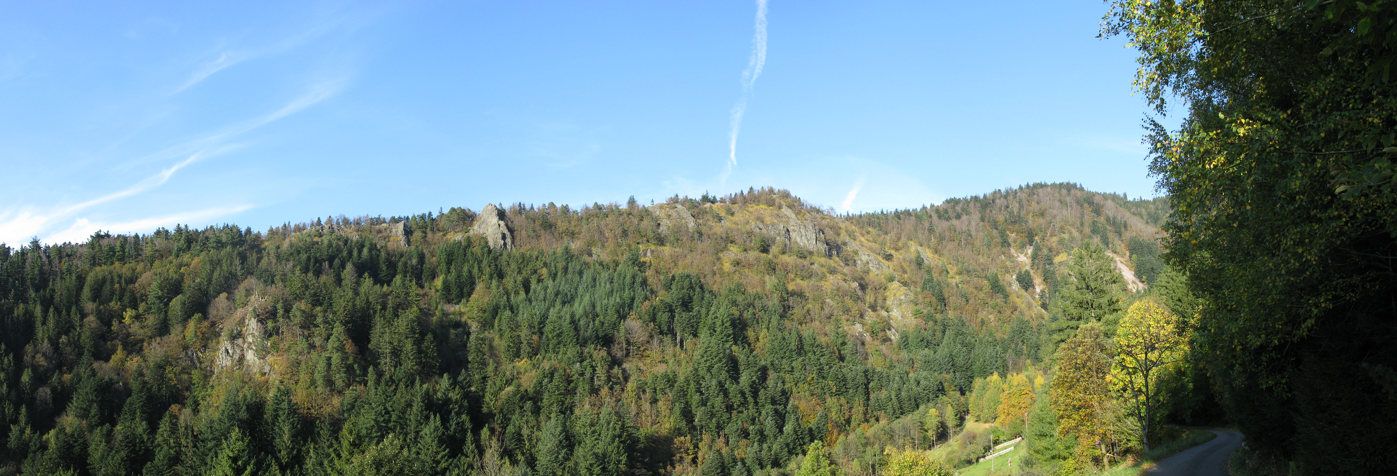 Landscape Photo of the »Karlsruher Grat«